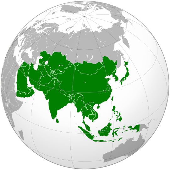 This image shows the current members of Asian Tennis Federation